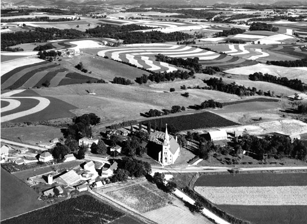 A 1957 aerial photograph in the vicinity of Jefferson, Monroe County, Wisconsin. Showing Strip farming, a planting method designed to control erosion. In the foreground is the Gothic revival style St. Mary's Church.